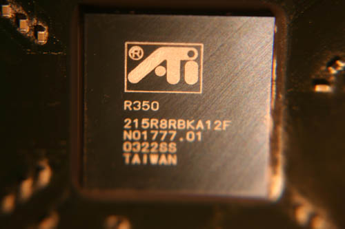 Picture of a Processor (GPU: Graphics Processor Unit) surface imperfections. You can see the small arched lines from the top right of the GPU to the bottom left. This image was taken at very high magnification and only shows minor imperfections. Thermal grease can be used to fill these imperfections and create a better contact with your heatsink